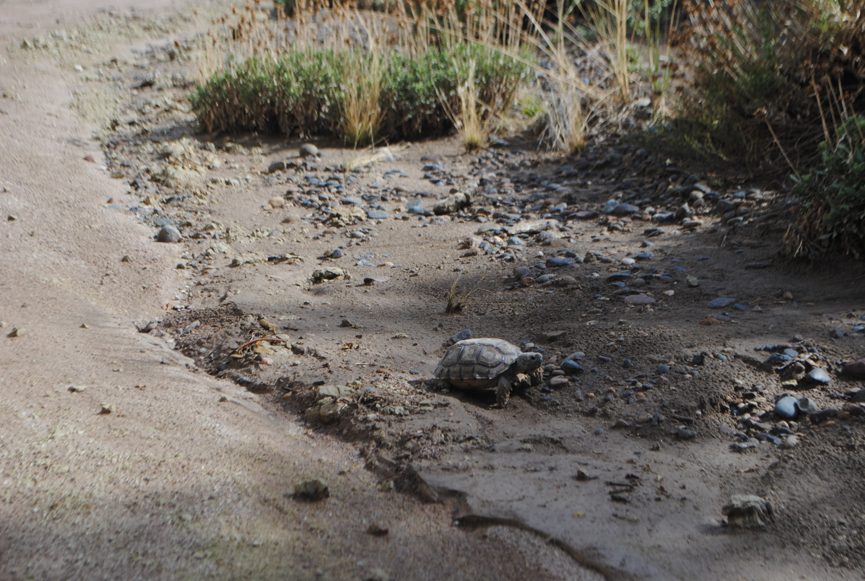 Chelonoidis chilensis known as "Tortuga terrestre patagónica" specimen found in a dry creek 9 km south of Las Grutas, Rio Negro Province, Patagonia Argentina